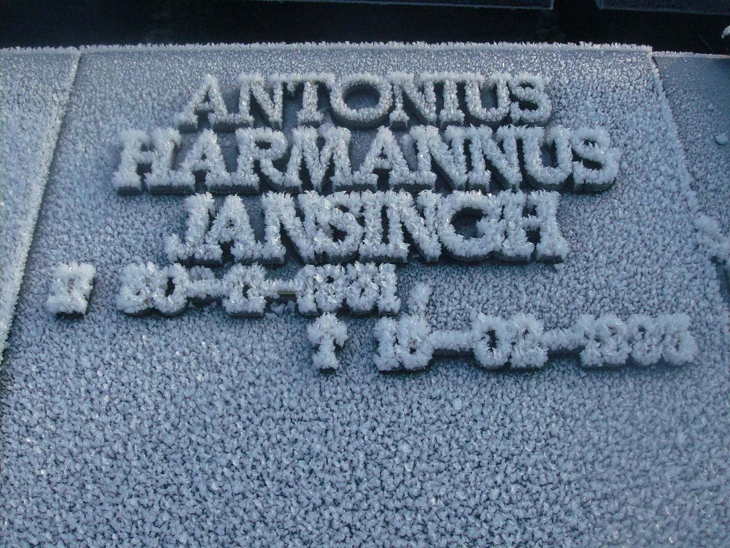 Frost on a grave stone, Netherlands, ice crystals